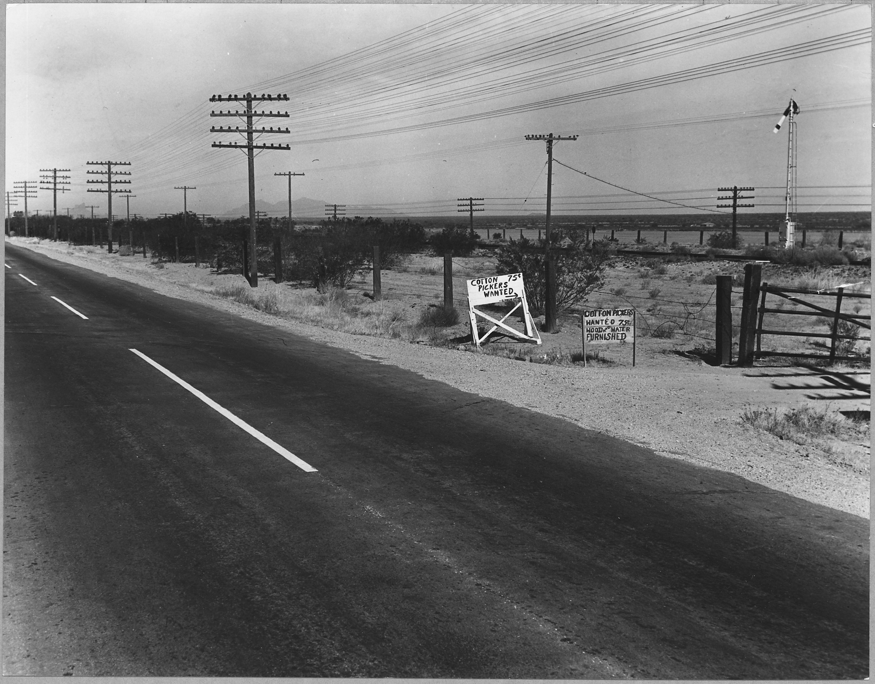 Scope and content: Full caption reads as follows: On Highway 80, Maricopa County, Ariz. Ranch advertisement during cotton harvest. Highway signs reading "cotton pickers wanted" are but the last stage in the process of attracting seasonal laborers to Arizona from areas as remote as Yakima Valley, Washington, and the bootheel of Missouri.